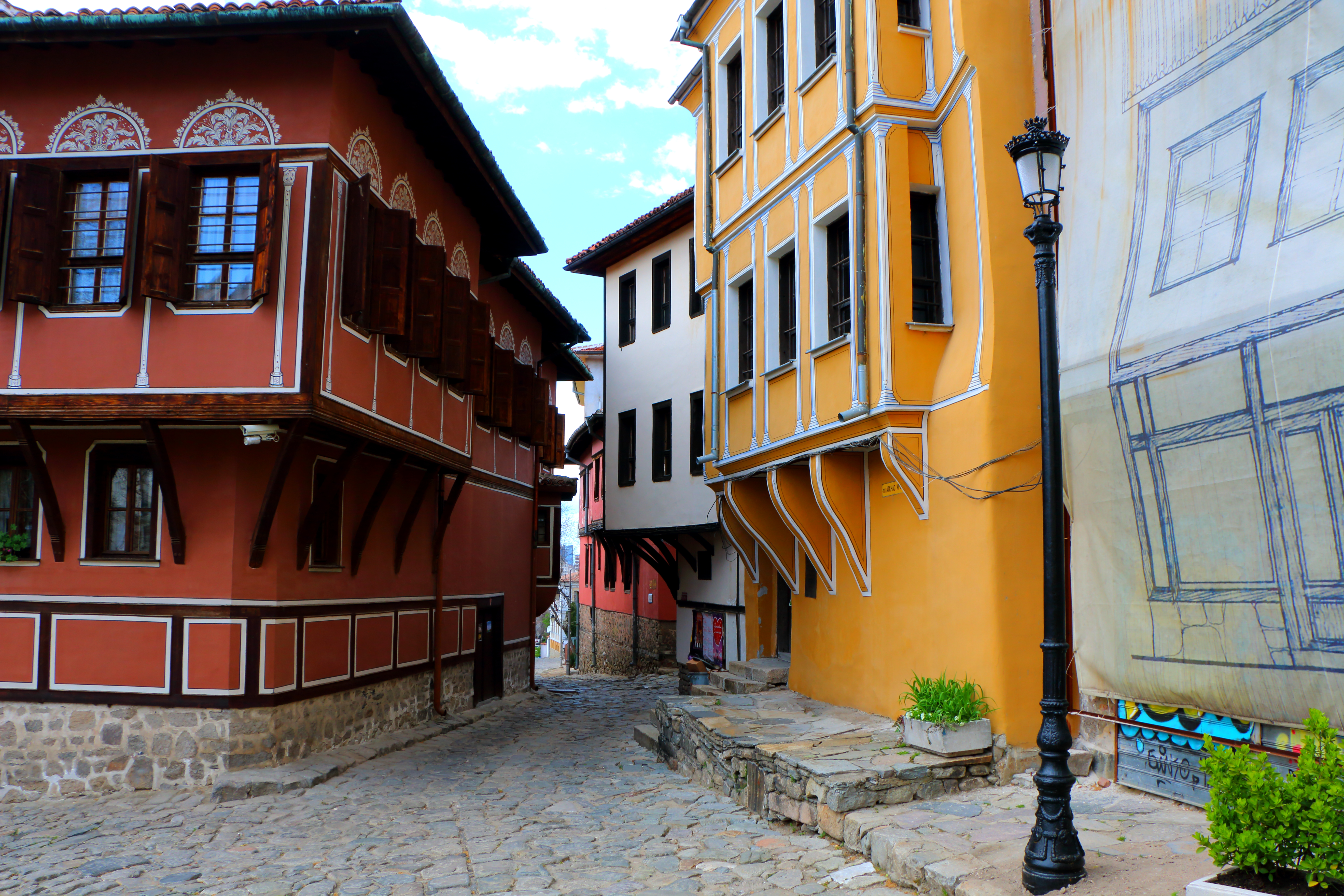 Balabanov house and traditional Bulgarian revival houses in old town Plovdiv